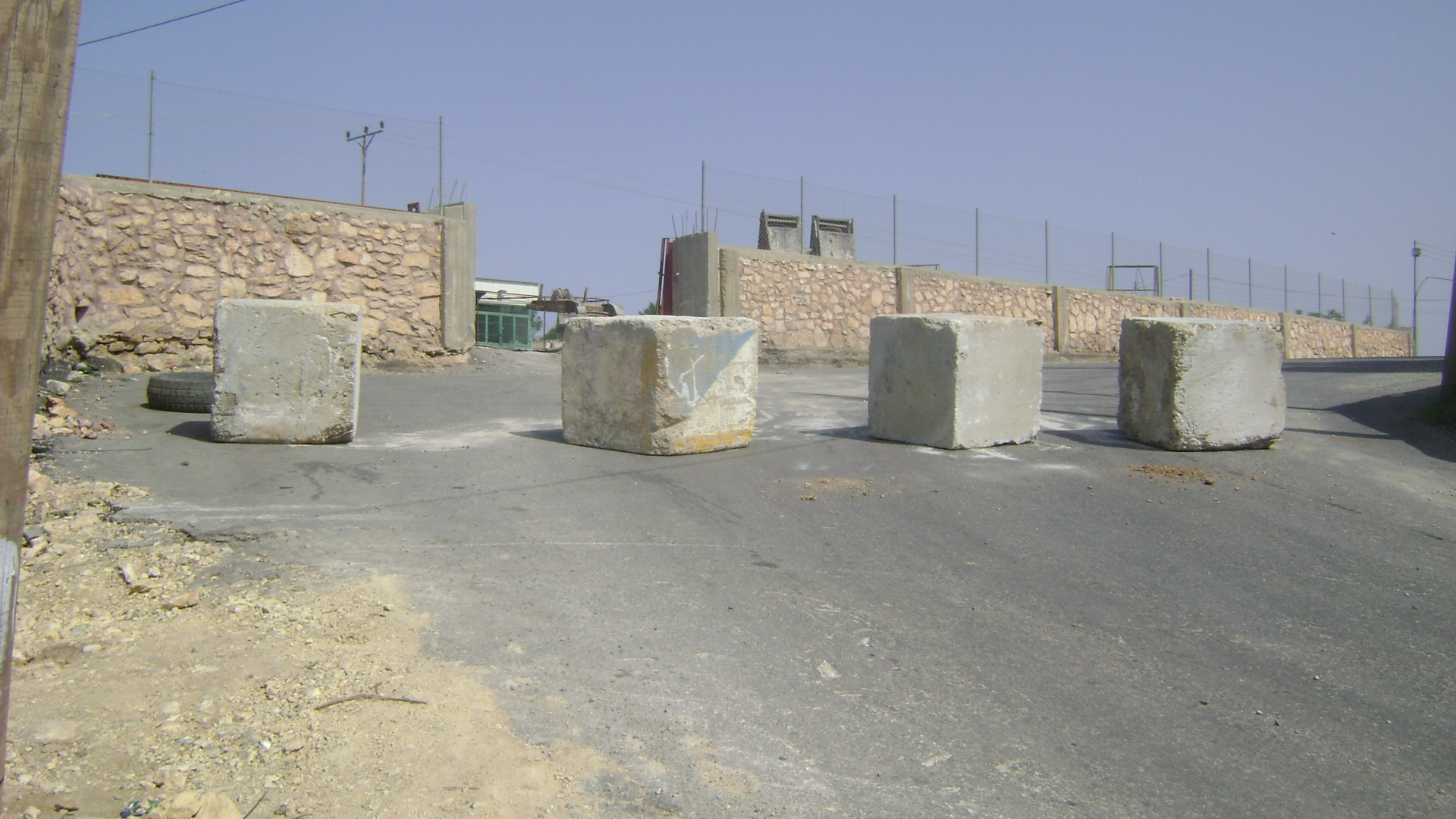 Road block installed by israeli military in Beit Ommar, West Bank.